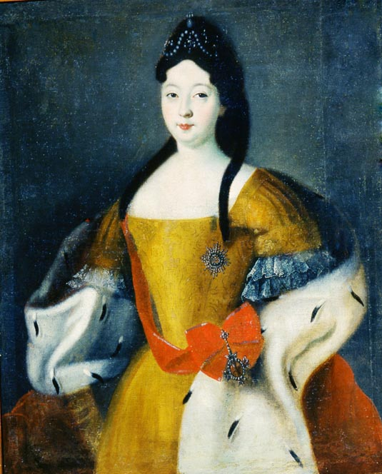 Portrait of the Tsesarevna of Russia Anna Petrovna of Russia (1708-1728), the daughter of Emperor Peter I of Russia. 106 × 88